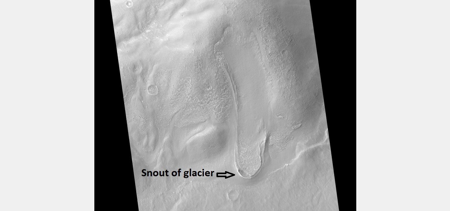 Tongue-shaped glacier as seen by hirise, under HiWish program. Location is 36.1 S and 101.3 E.